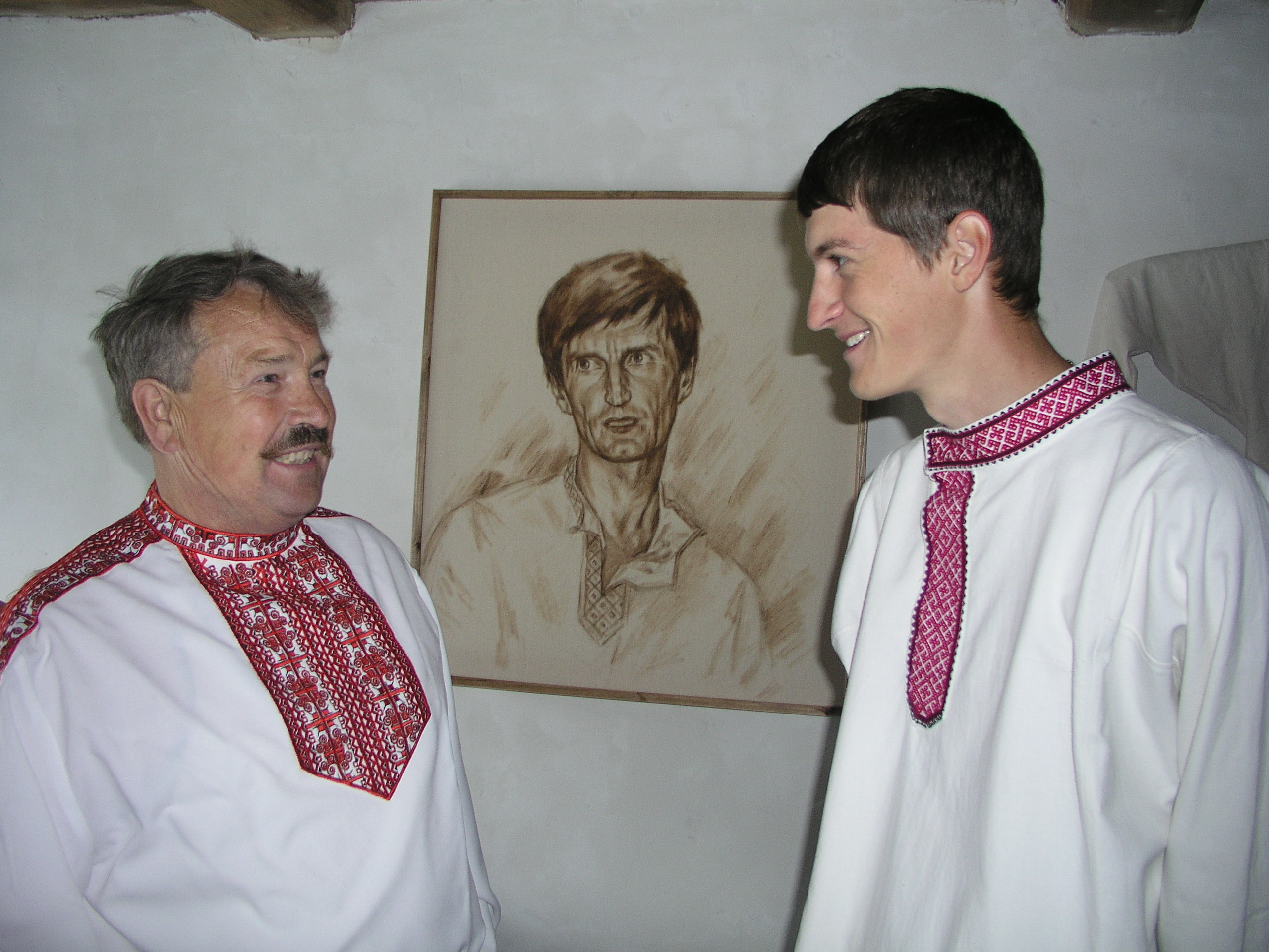 Erzyan Inyazor Pirguzh and Andre н Romashki at the portrait of Vladimir Ivanovich Romashkin. MUK «Ethnographic Museum «Ethno-kudo» named after V. Romashkin». Podlesnaya Tavla, Kochkurovsky district of Mordovia.